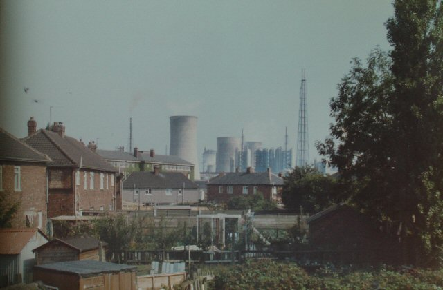 Billingham ICI Plant across back gardens, Billingham, Cleveland. A view of the Billingham ICI plant in early 1980s from the back of nearby houses (Grange Avenue, Billingham). The ivy covered Administration office of the plant can be seen below and to the left of the cooling tower. These houses were local council owned properties at the time that the photo was taken.